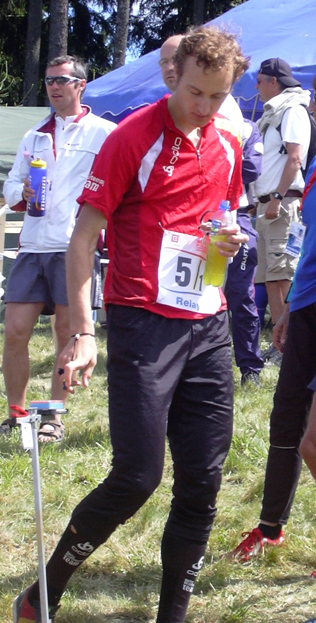 World Orienteering Championships 2008 in Olomouc, Czech Republic. On photo Baptiste Rollier.